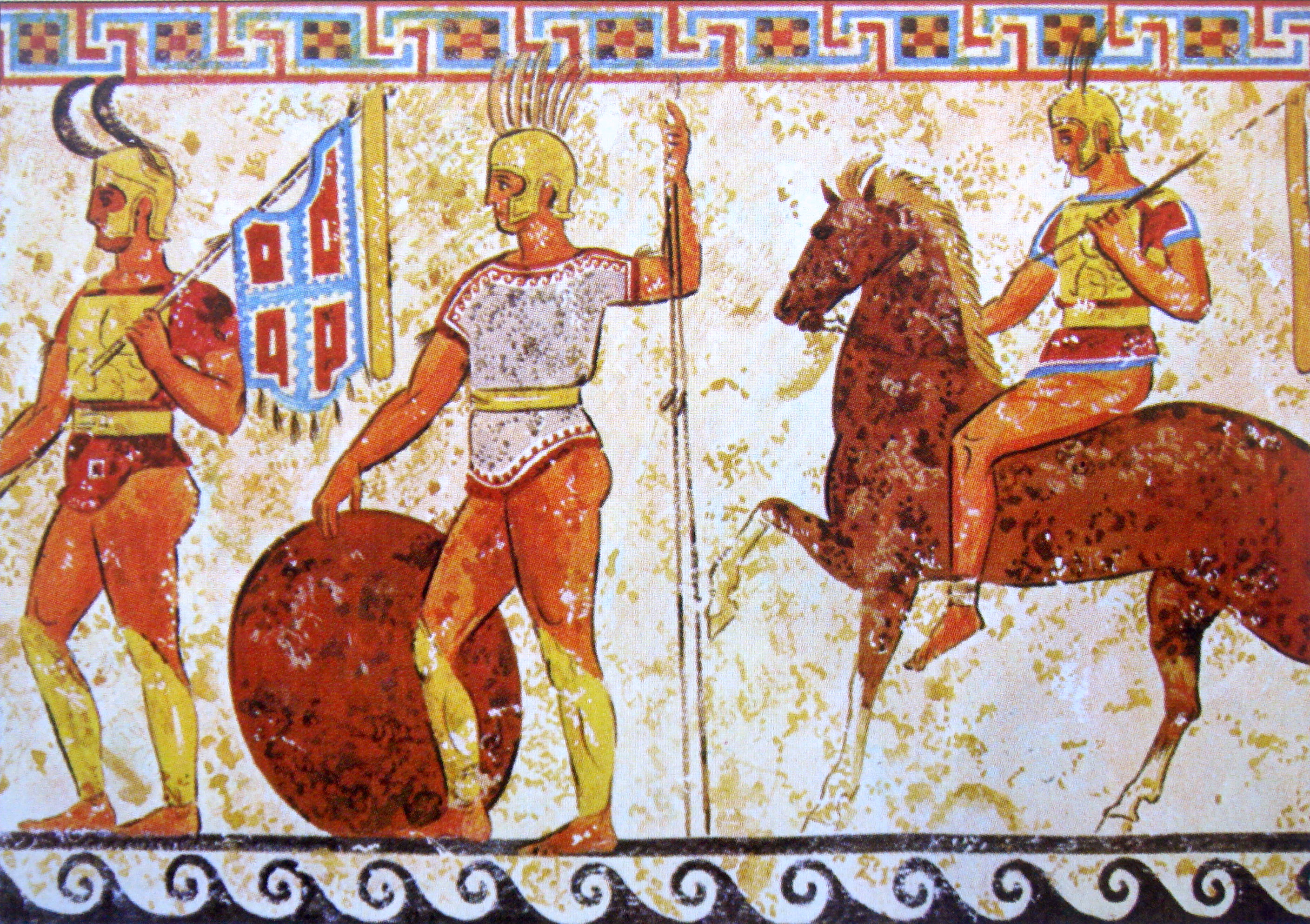 Samnite soldiers from a tomb fresco from Nola, 4th century BCE. Museo archeologico nazionale di Napoli (inv. nr. 9363).